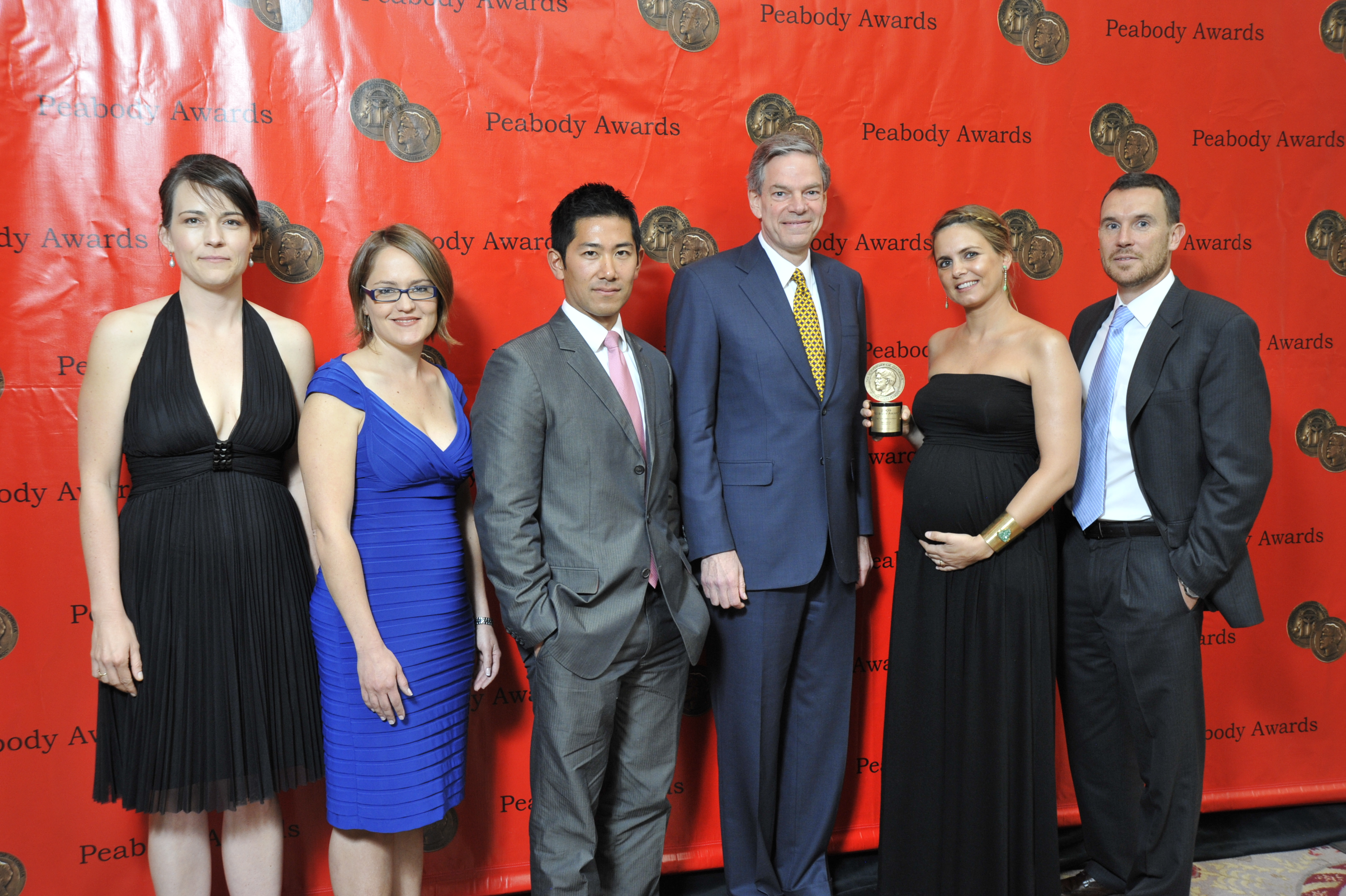 Cerissa Tanner, Benita Sills, Adam Yamaguchi, Joel Hyatt, Mariana van Zeller and Darren Foste 69th Annual Peabody Awards Luncheon Waldorf=Astoria Hotel New York, NY USA May 17, 2010